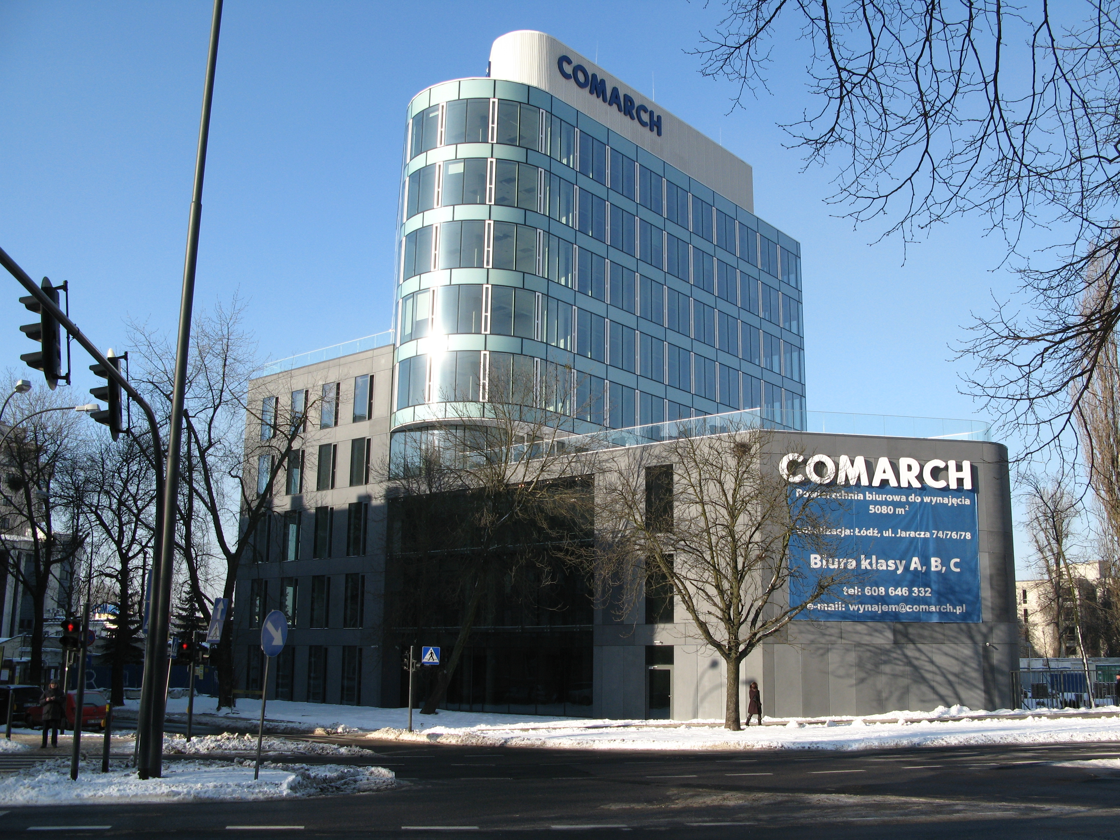 Comarch Office and Conference Centre, Łódź 76/78 Jaracza Street